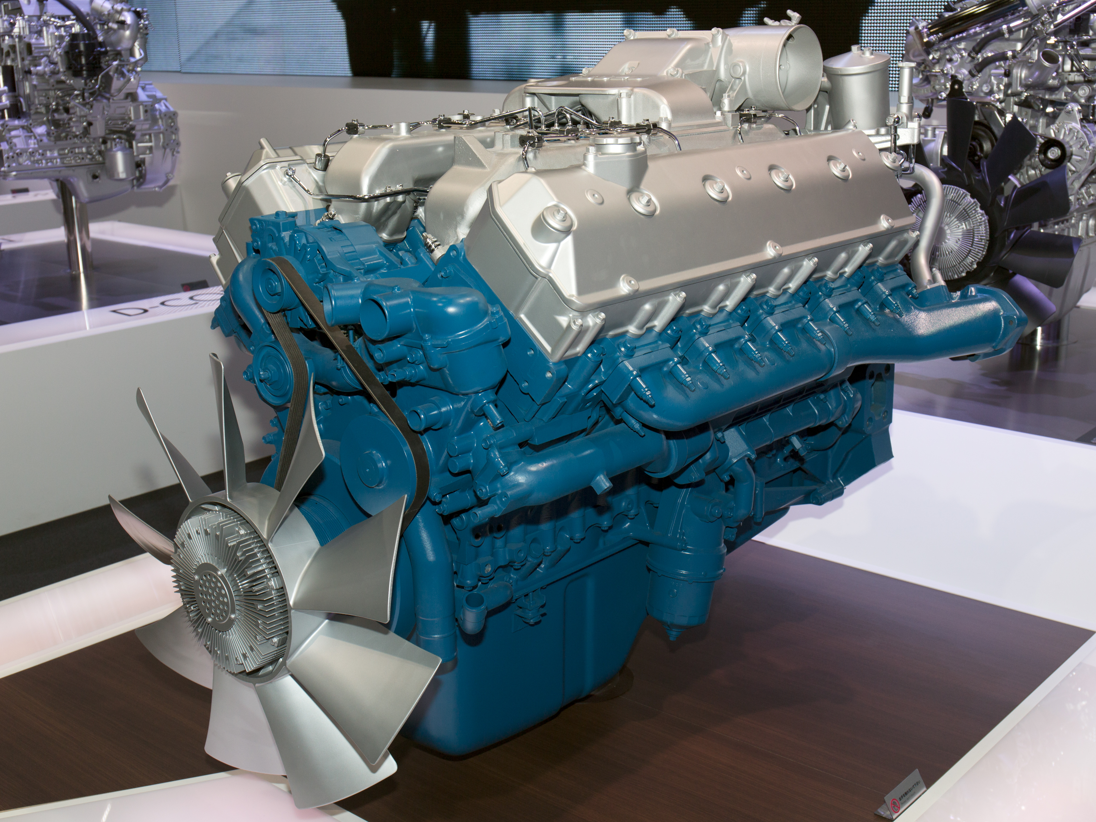 Tokyo Motor Show 2013: Isuzu 10TD1 engine